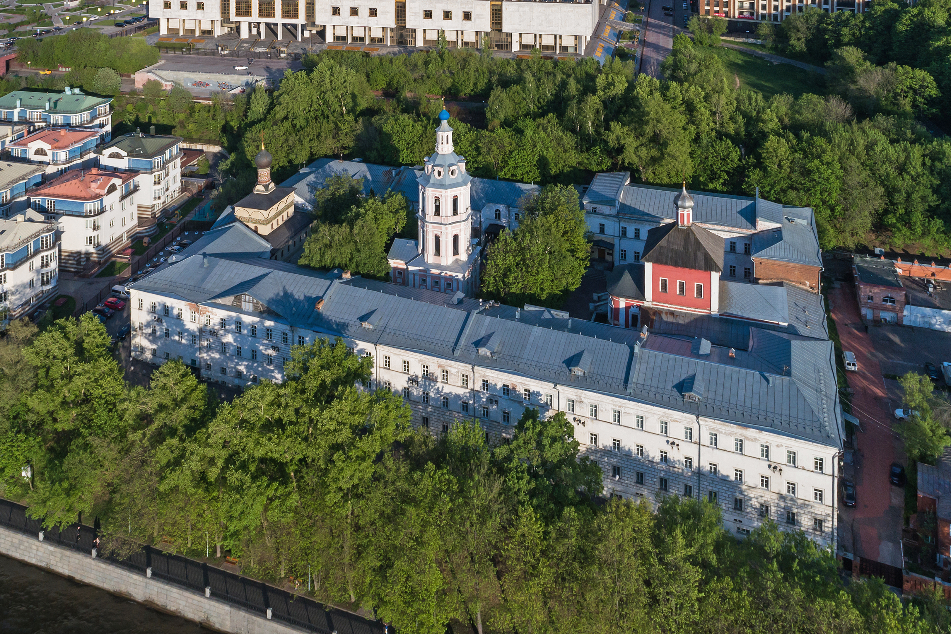 Aerial photo of Andreevsky Monastery in Moscow (Russia).